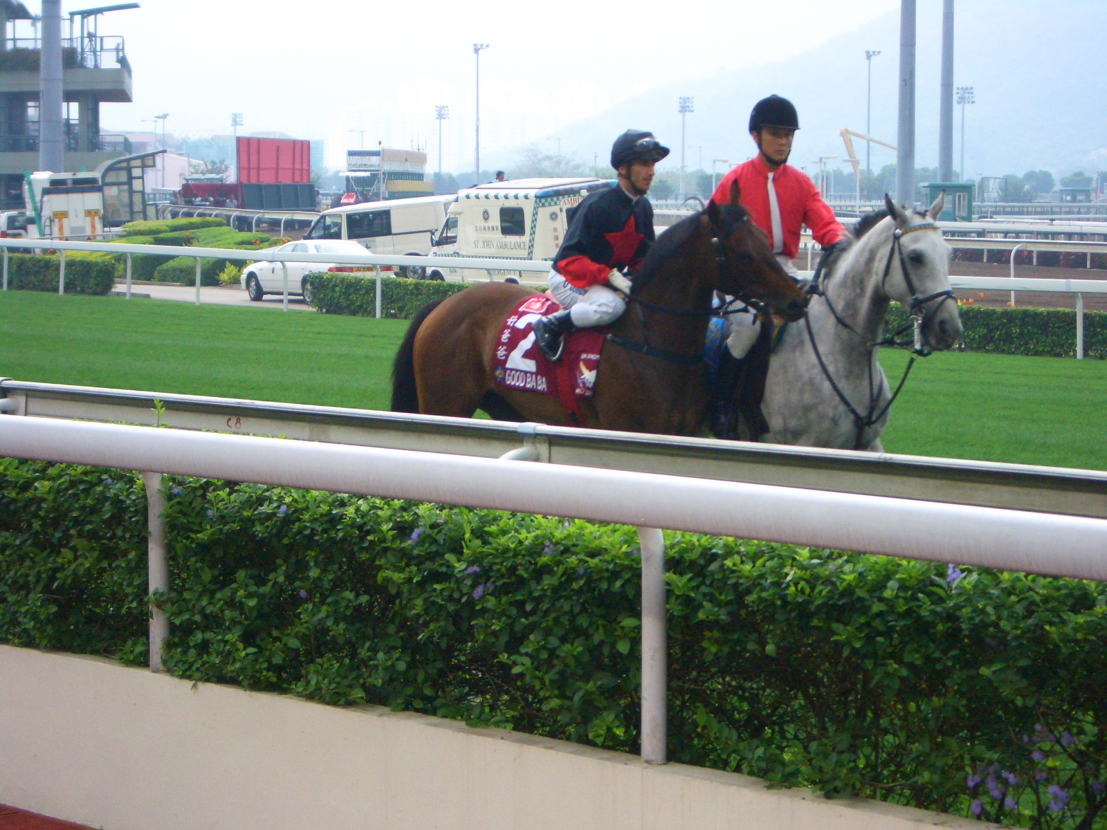 Good Ba Ba (Chinese:好爸爸）, winner of 2008 Champions Mile